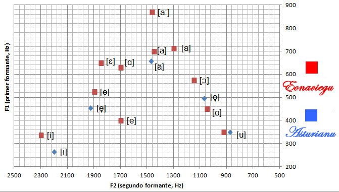 Gallego asturiano formats